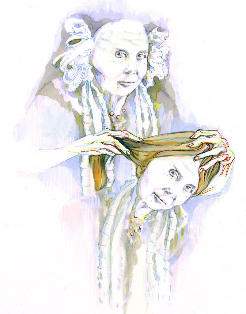 Illustration made for the Doppelganger article: image of two identical figures, one older than the other combing the younger clone's hair.